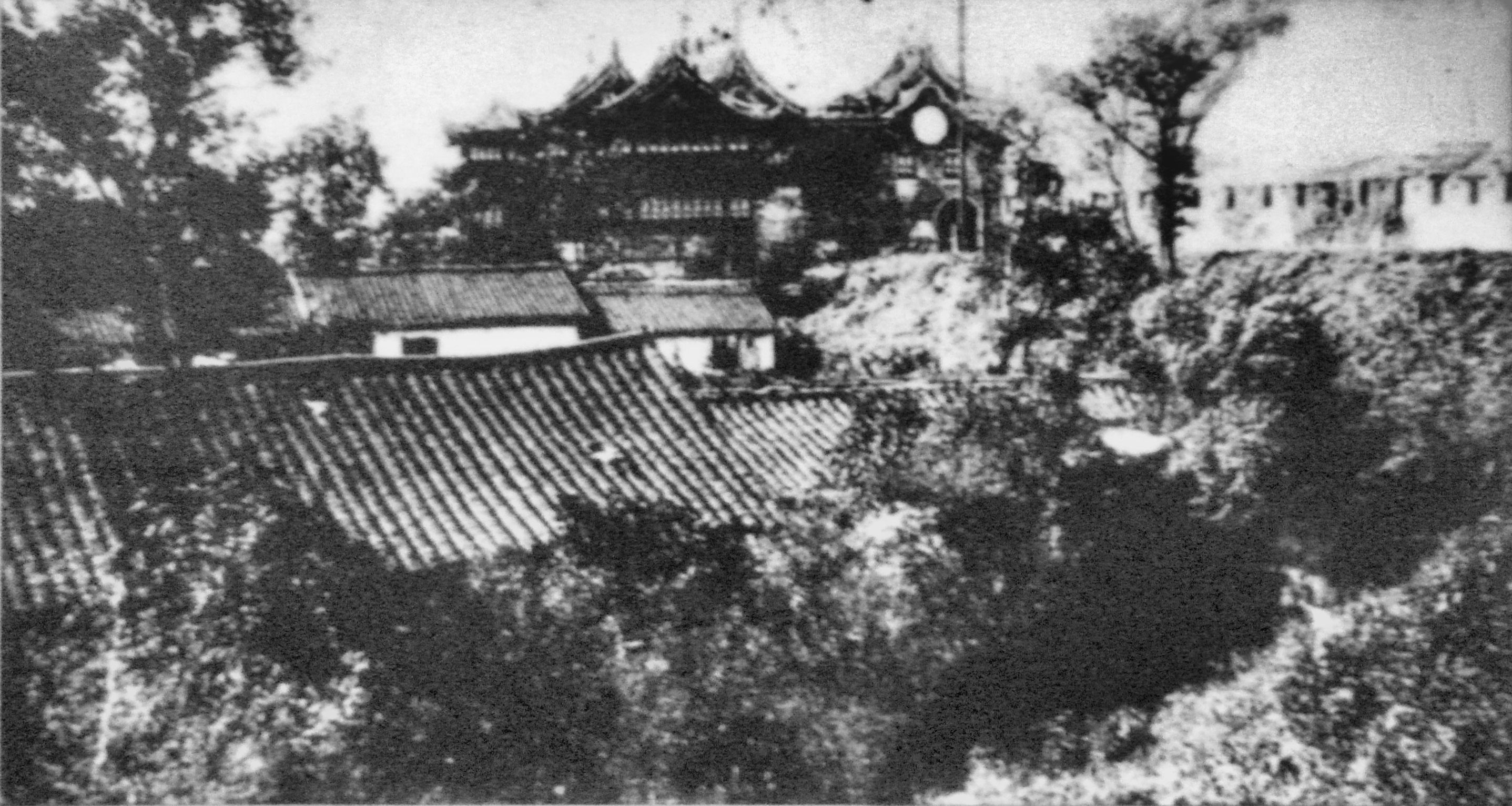 Ancient view of Dajingge, Shanghai